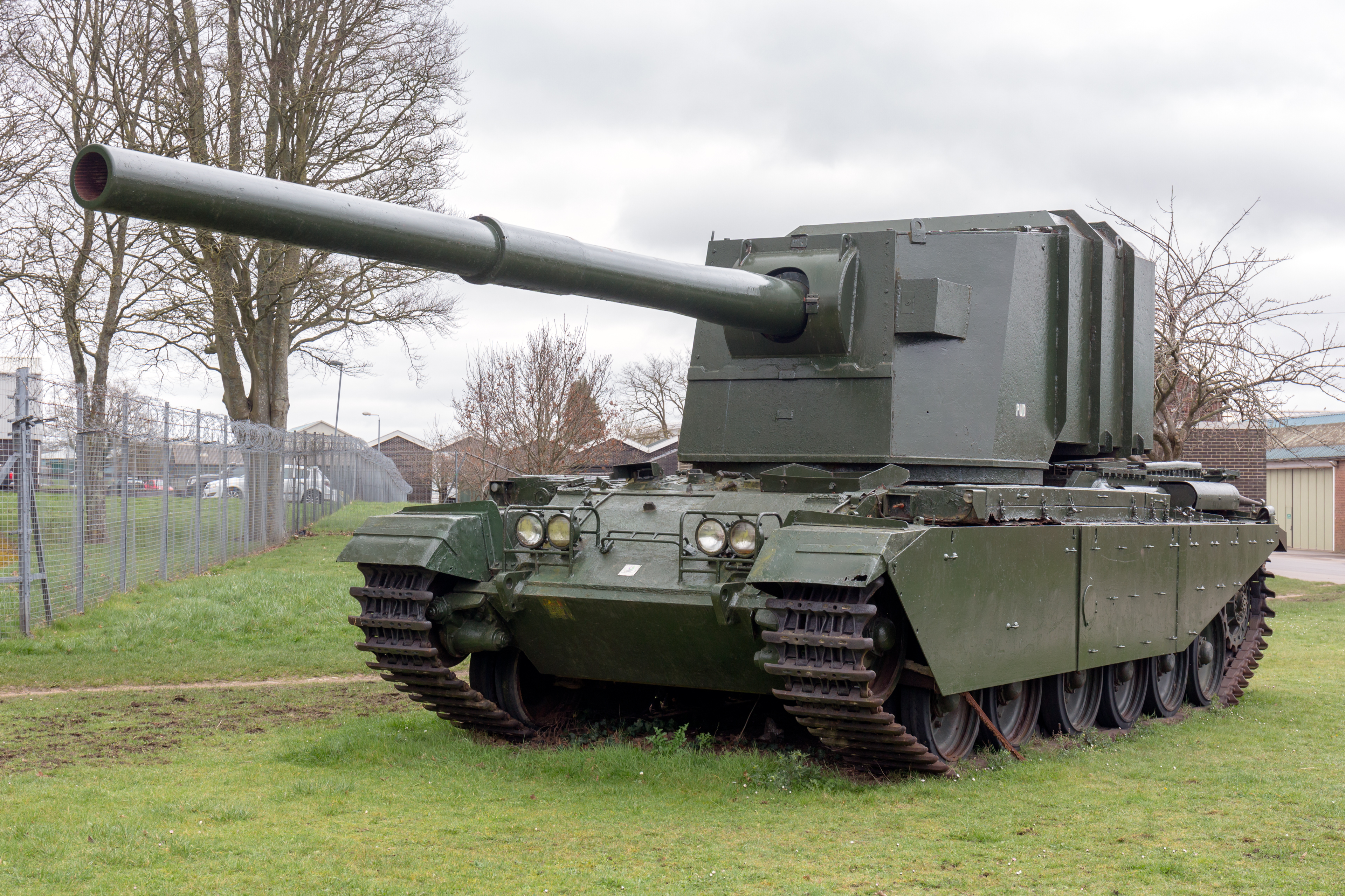 Bovington Tank Museum: FV4005